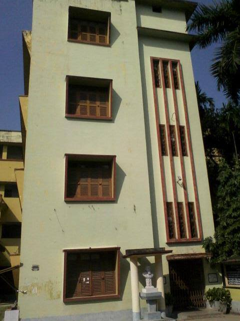 Sripat Singh College Academic Building